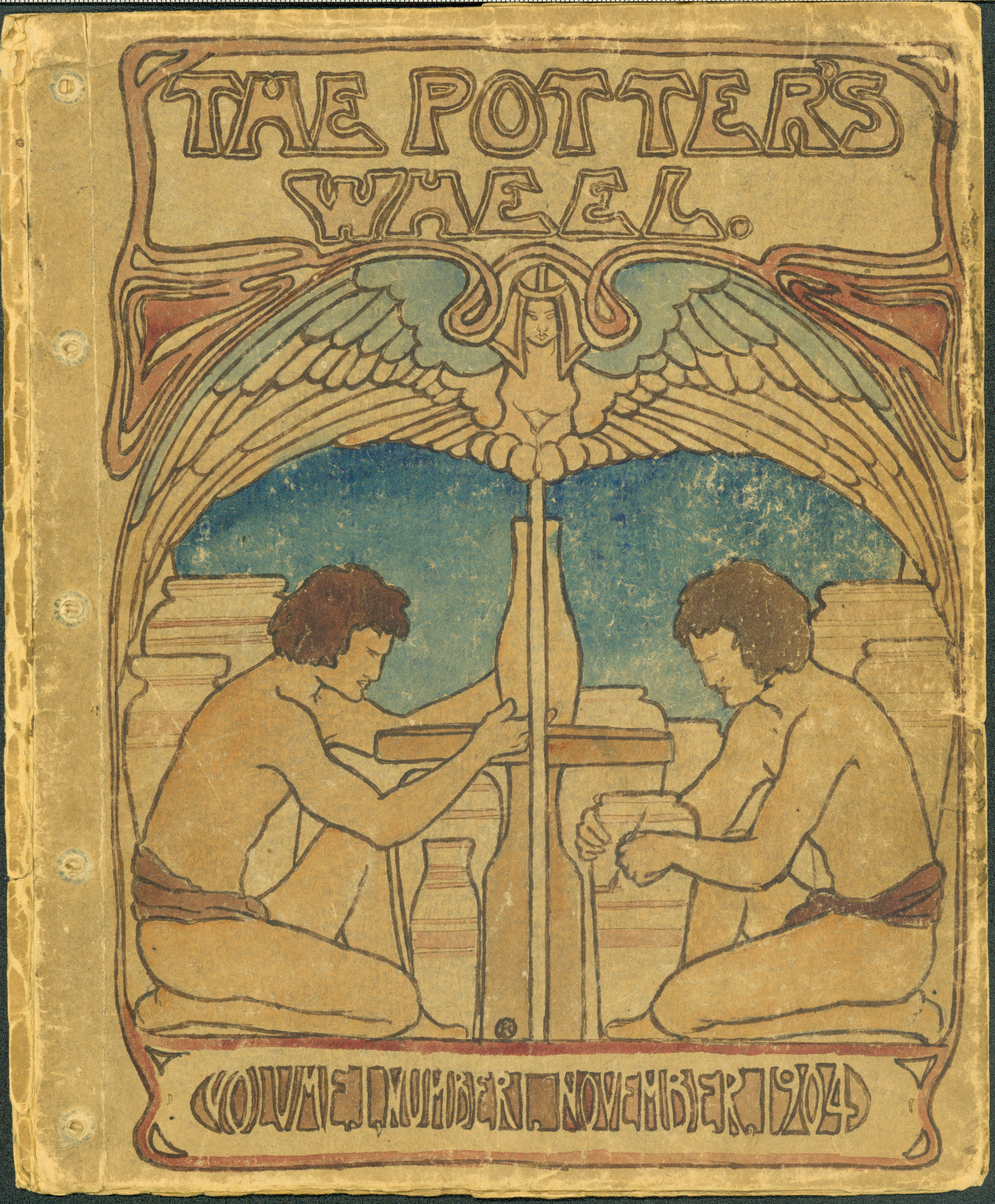 Drawing of ancient Egyptian men designed by Caroline Risque.Title:The Potter's Wheel, Volume 1, Number 1, page 1, November 1904